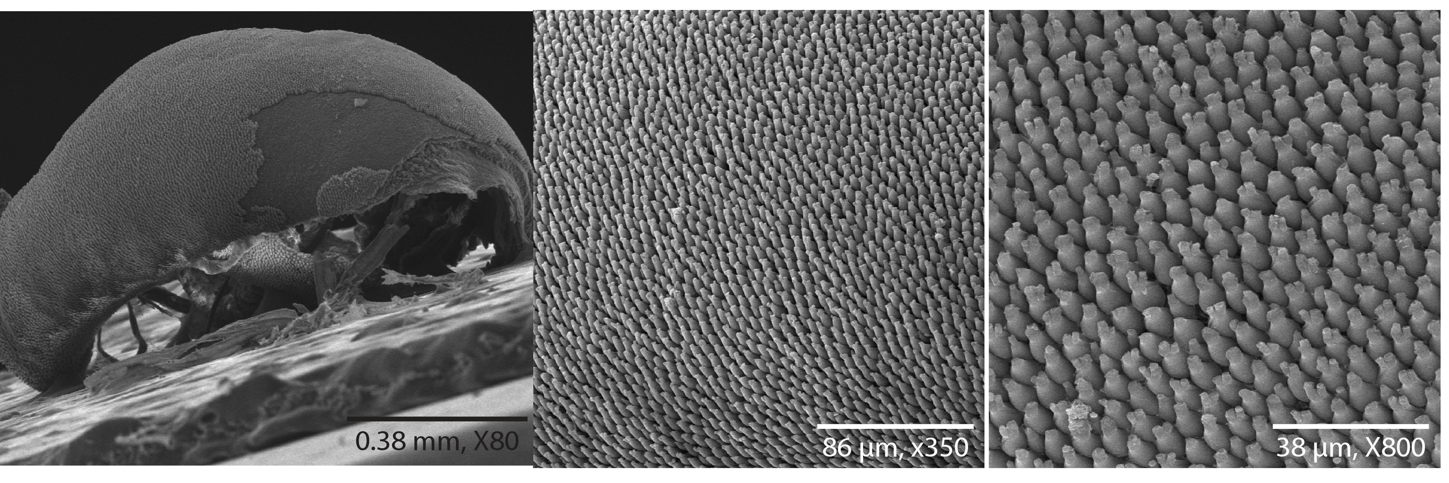 Scanning electron microscope images of Thamnophis proximus retina at increasing magnifications illustrating the all-cone photoreceptor population.